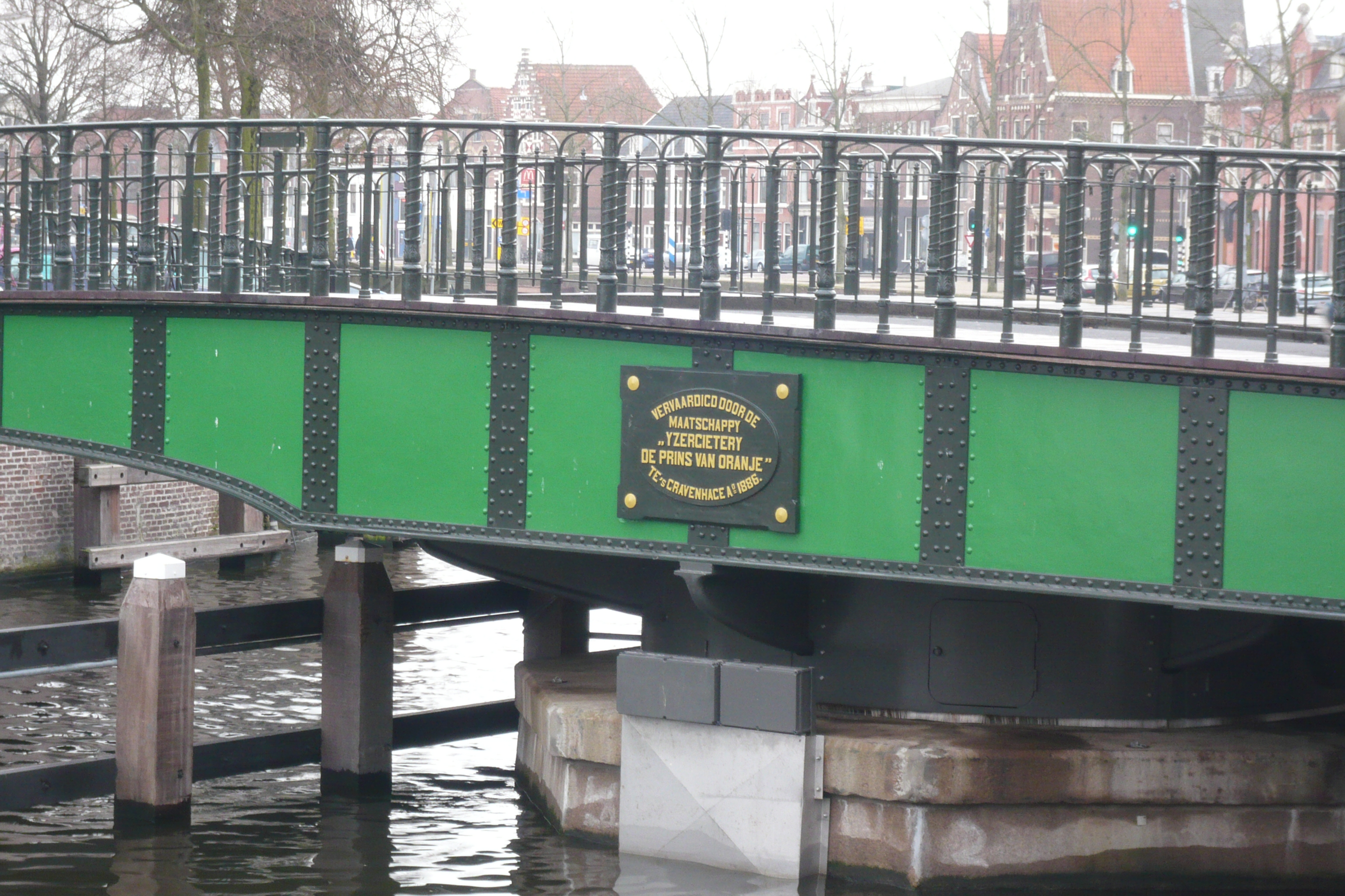 Melkbrug Haarlem. Bridge restored in 2010, including the commemorative plaque for the original ironworks "Ijzergieterij Prins van Oranje". The other side of the bridge now shows a plaque for the Sliedrecht restoration organization that performed the renovations.